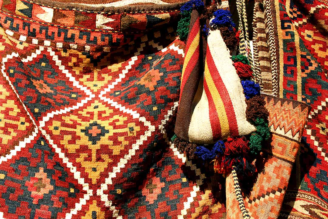 Afghanistan textiles